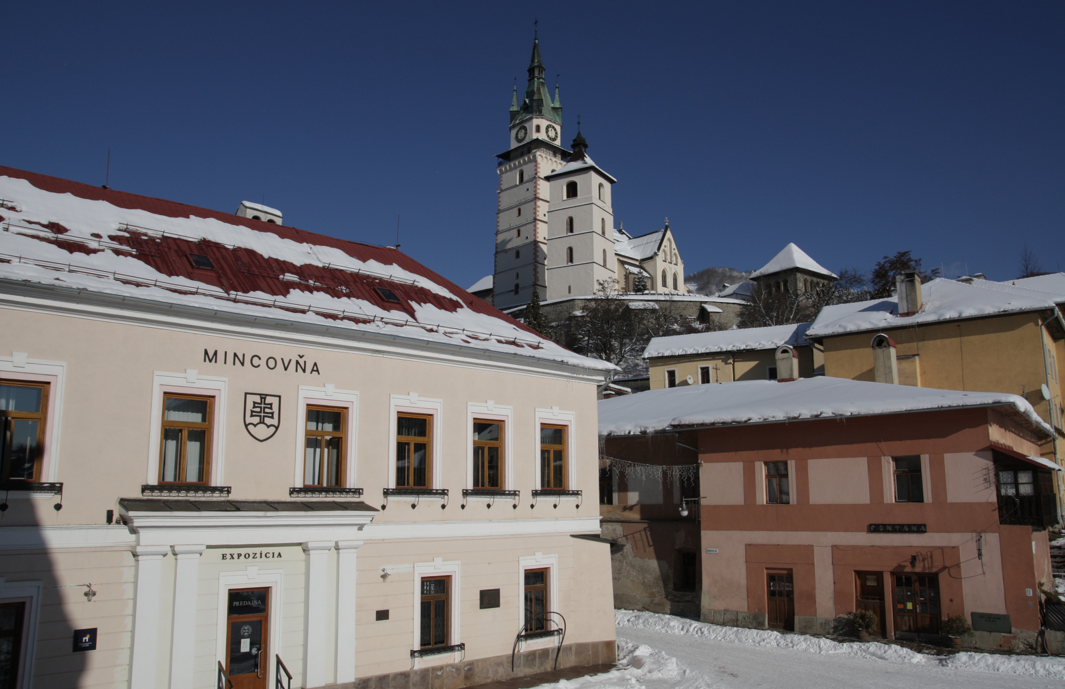 Kremnica Mint during winter.